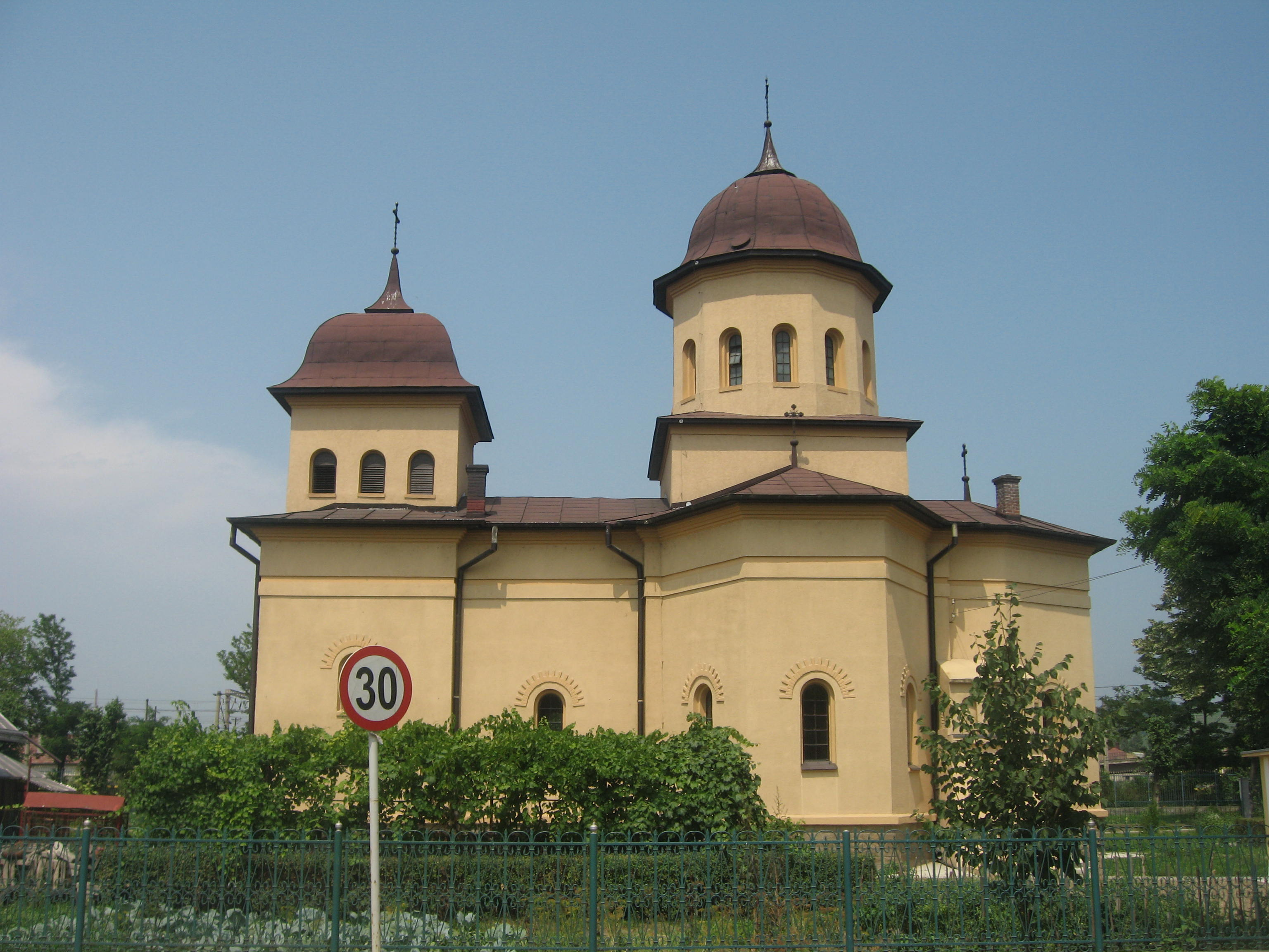 Holy Archangels Michael and Gabriel Church in Iţcani, Suceava.